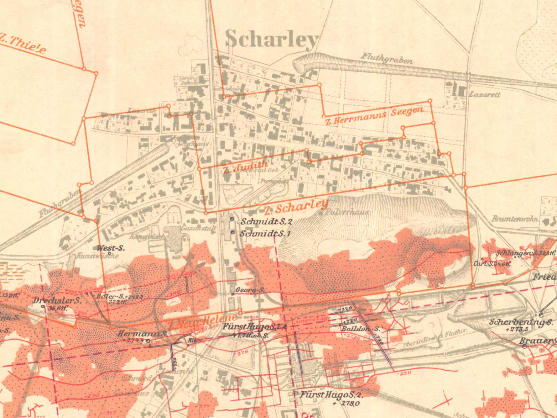 Field boundaries of zinc ores mine Scharley (pol. Szarlej) in Scharley (pol. Szarlej; now Piekary Śląskie, Poland), part of German geological map. Orange colour marks deposit of calamine.